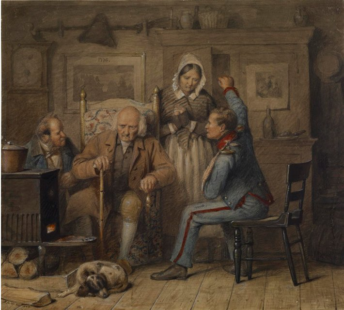 The Soldier’s Experience by Richard Caton Woodville, 1847, watercolor on paper, 24.7 × 27.3 cm, The Walters Art Museum, Baltimore